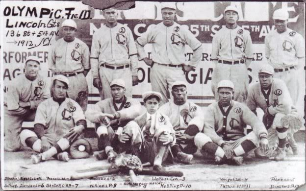 1912 New York Lincoln Giants, Top Row: L-R: Bill Francis, Pete Booker, John Henry Lloyd, George Wright, Spot Poles. Bottom Row: L-R: Ashby Dunbar, Louis 'Santop' Loftin, Smokey Joe Williams, mascot, Dick Redding, Bill Pettus, Charlie Bradford.